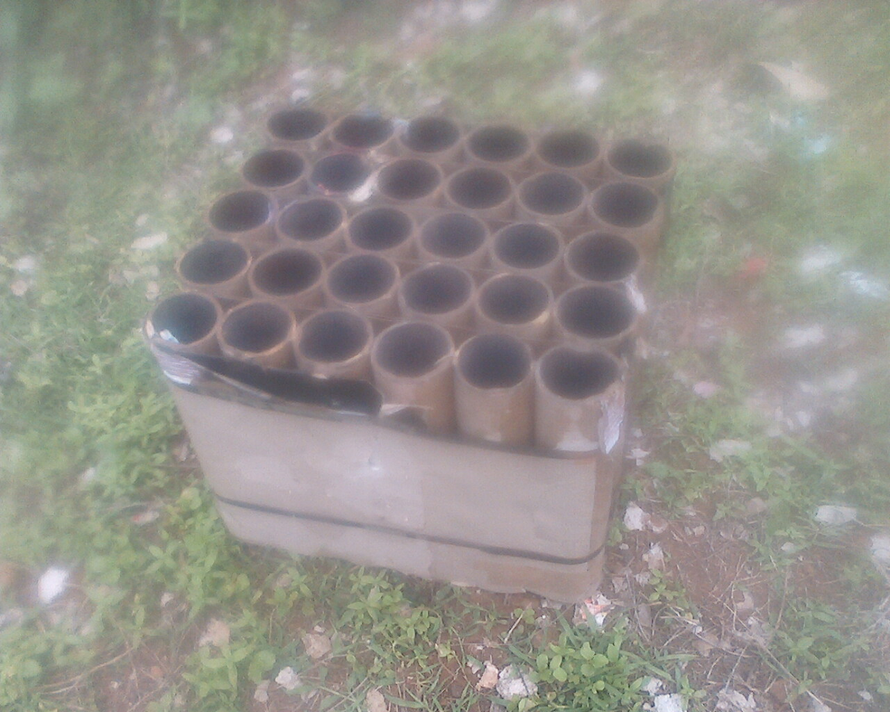 ParakkottukavuThalappoliFirework